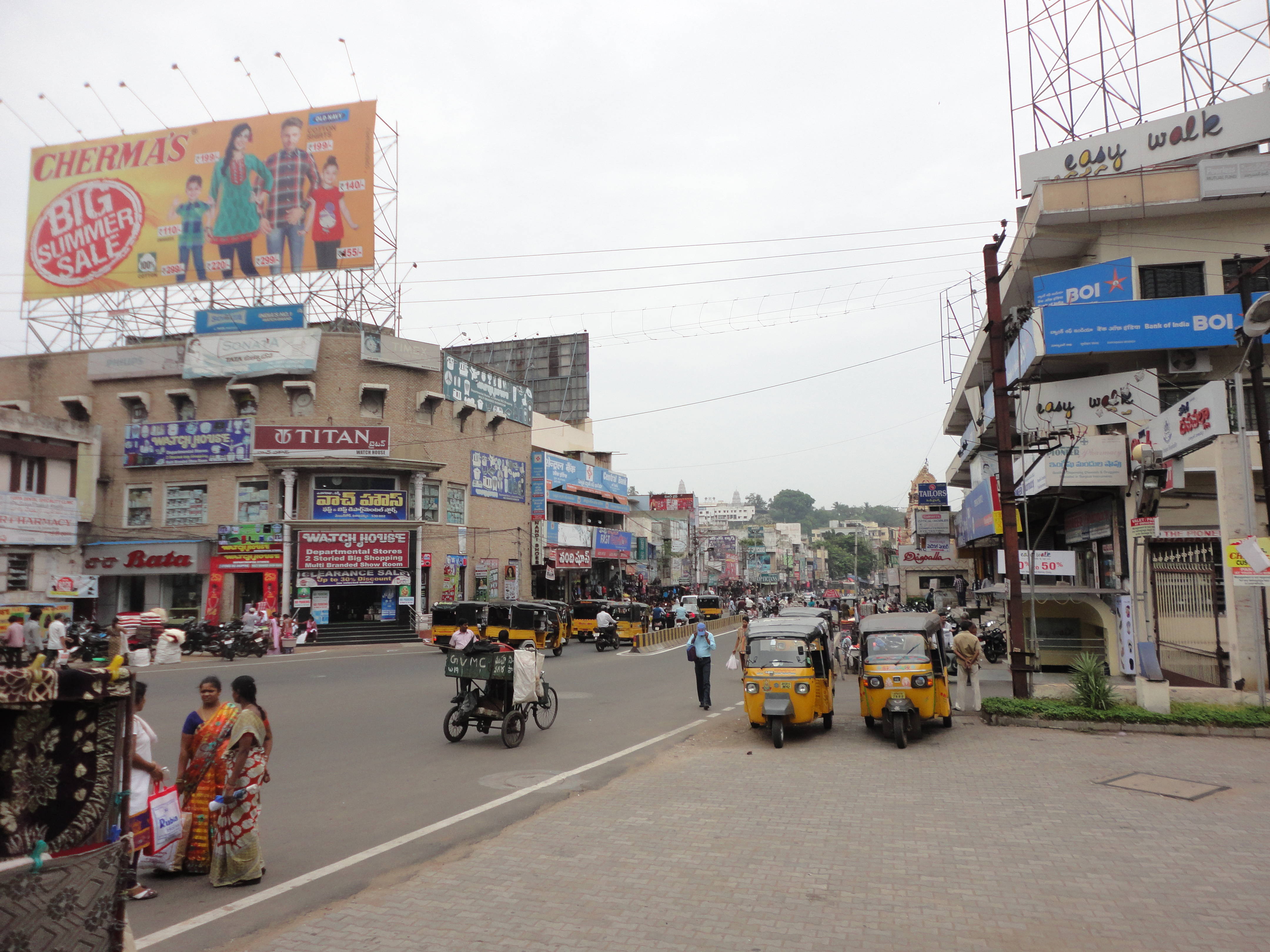 సూర్యాబాగ్